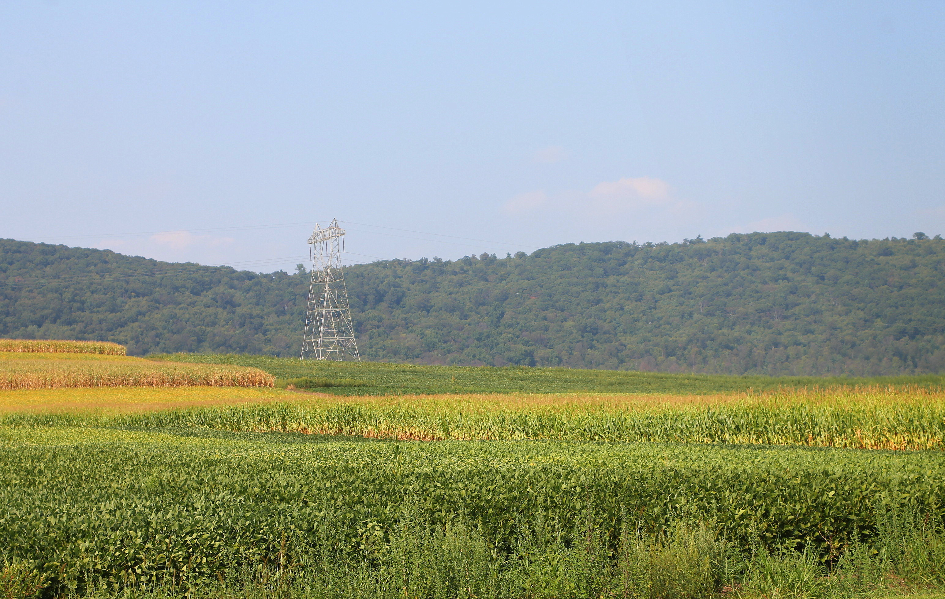 Scenery of Upper Mahanoy Township, Northumberland County, Pennsylvania